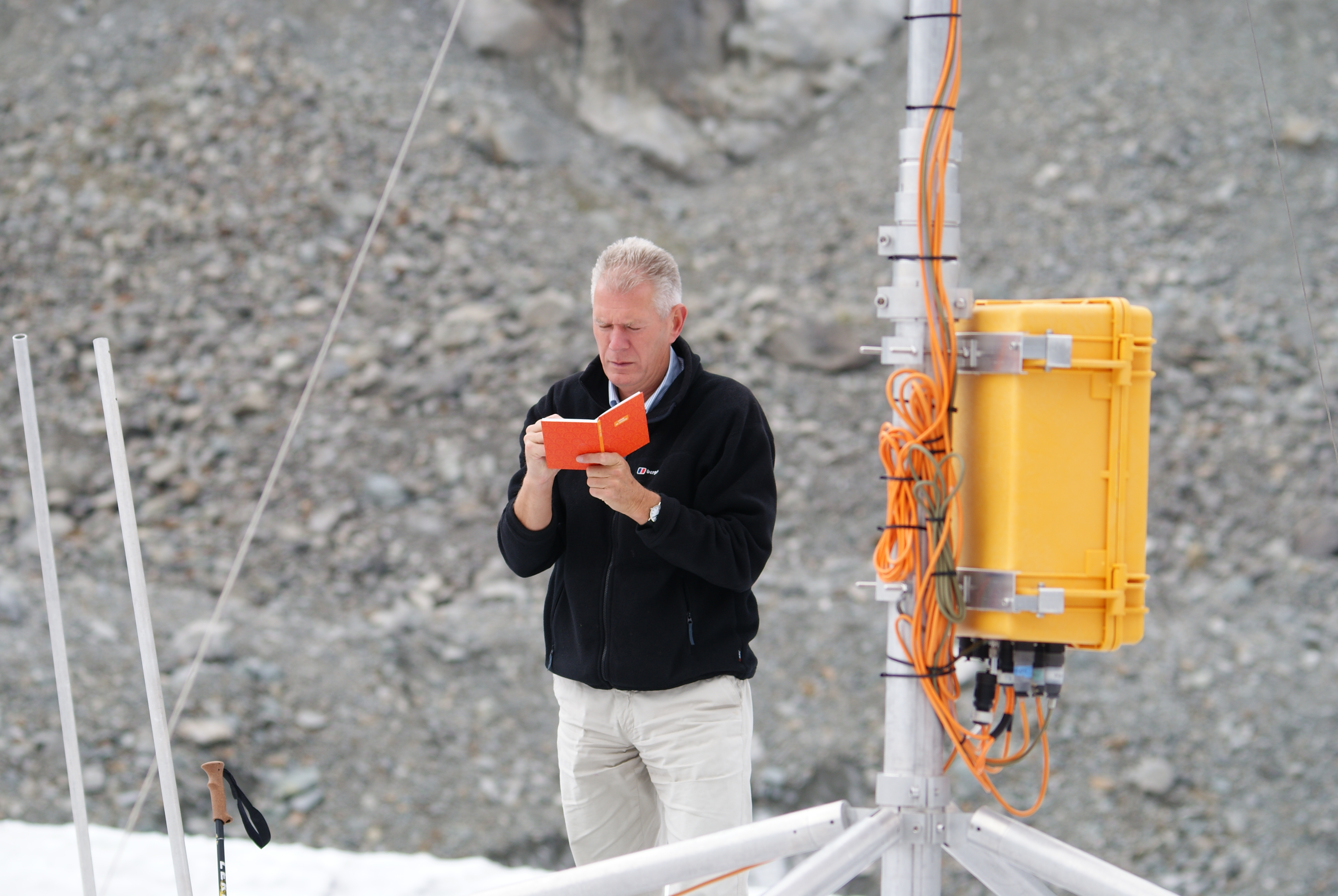 Hans Oeremans taking notes at a glacier.